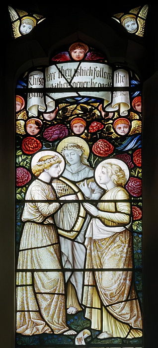 Stained glass window in St Tysilio's Church, Llantysilio, Wales. It was produced by Shrigley and Hunt from a design by Carl Almquist (1848-1924).